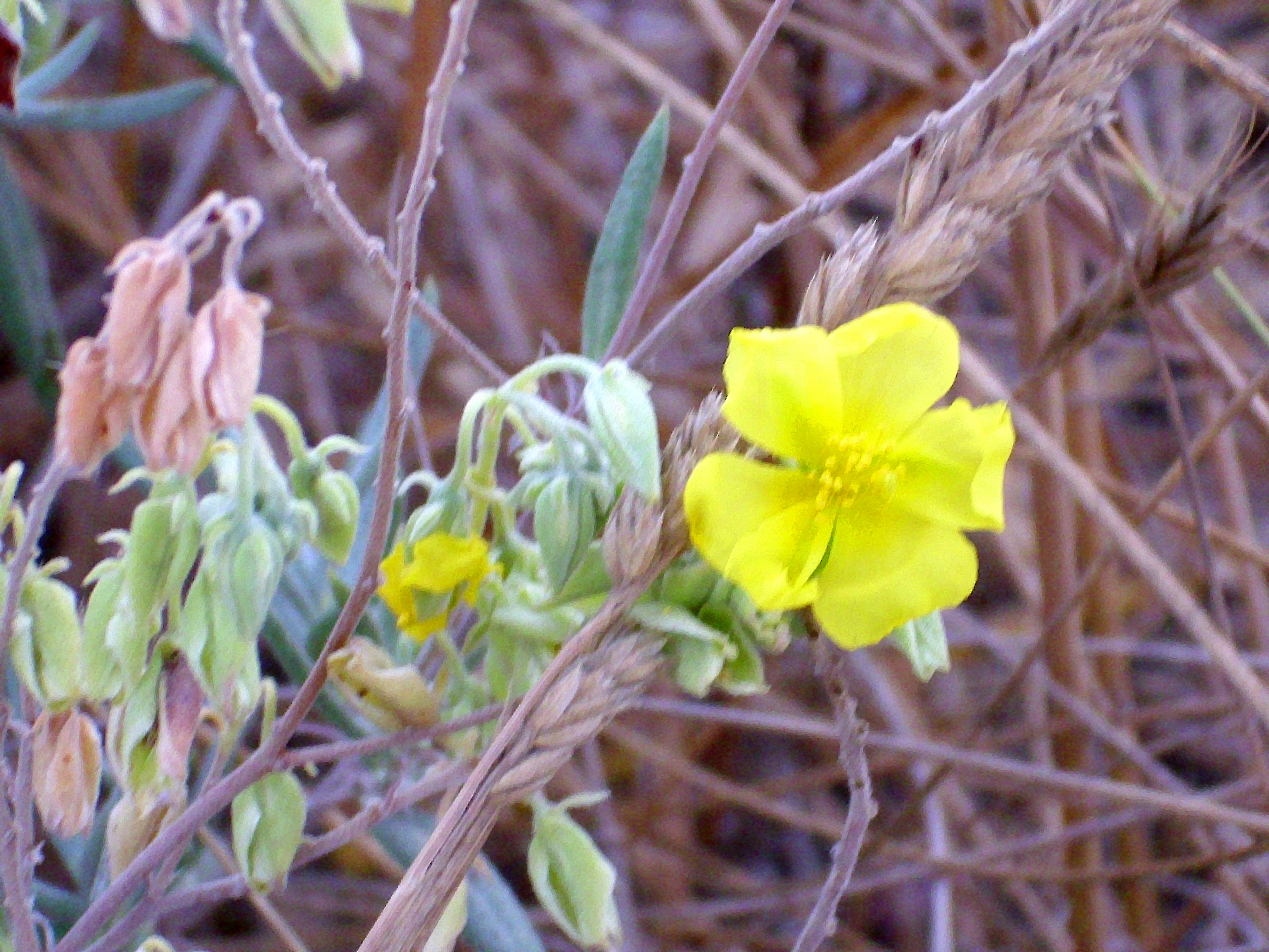 Halimium atriplicifolium flowers close up, La Mata, Torrevieja, Alicante, Spain